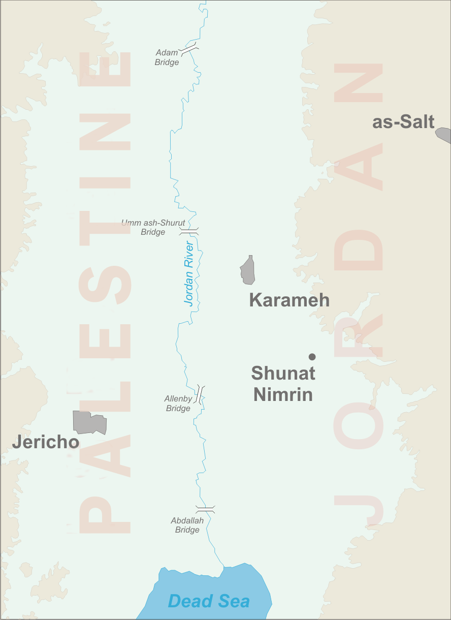 Southern Jordan Valley, c. 1968 (for use with troop movements in the Battle of Karameh).